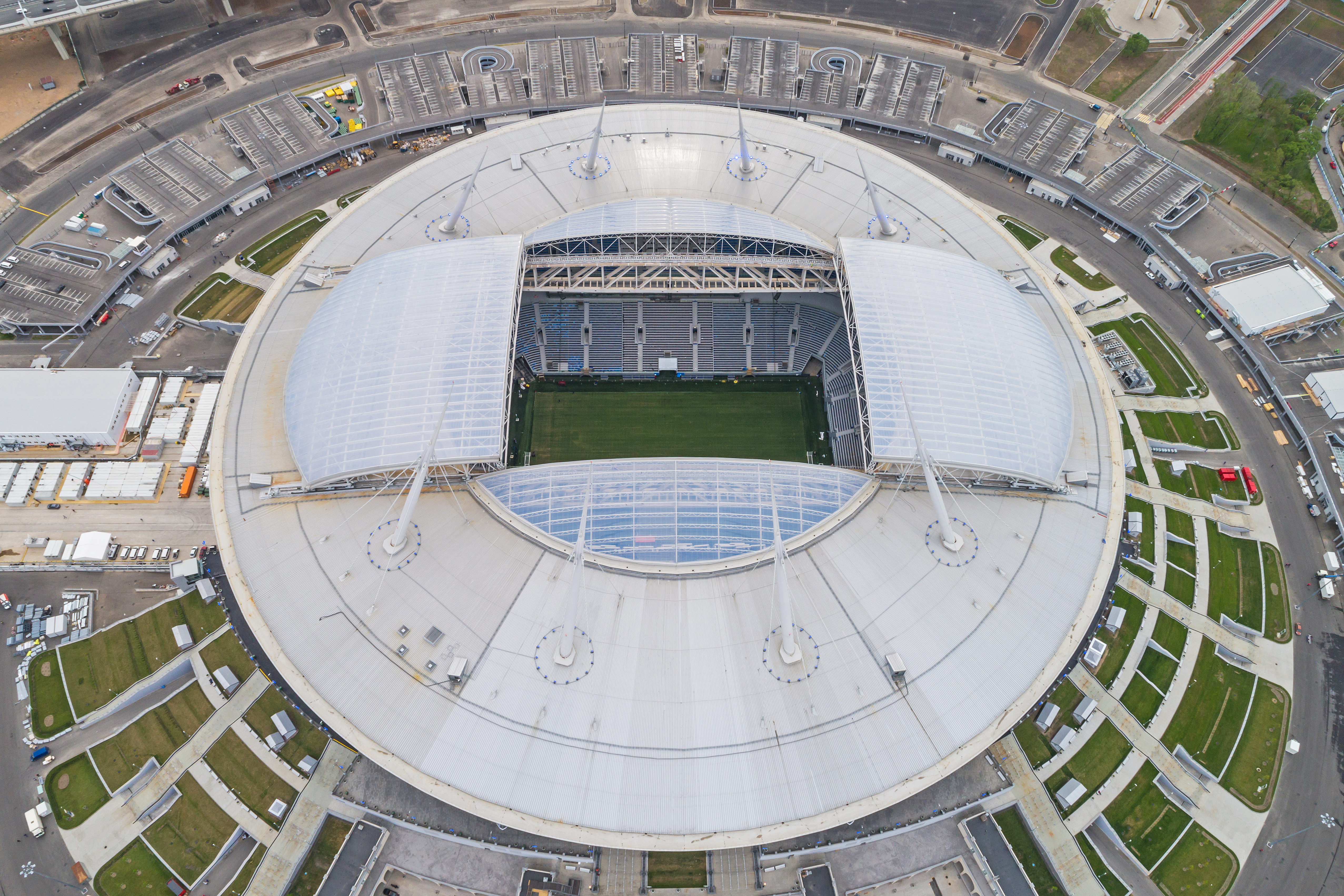 Aerial photo of Krestovsky Stadium in Saint Petersburg (Russia).